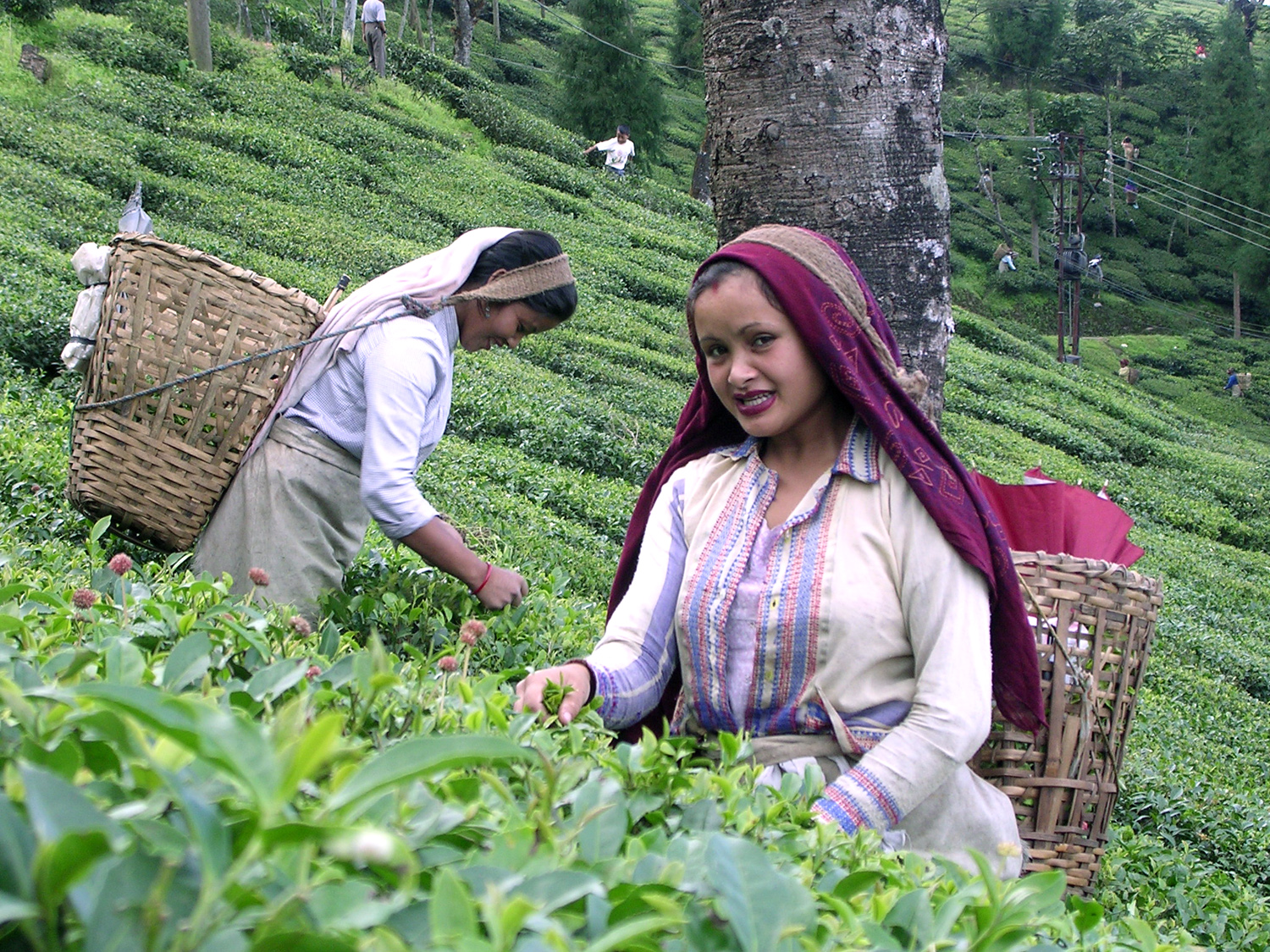 Tea picking being done by women tea laborers at a Darjeeling Tea estate. The plucking period is during the four Darjeeling Tea seasons mainly Darjeeling First Flush, Darjeeling Second Flush, Monsoon and Autumn Flush. Most of the teas plucked are done by women known for their tender plucking which is much needed to retain the two leaf and a bud intact. Thus resulting in the best of tea processing and a good high quality Darjeeling Tea. These women folk are the heart of Darjeeling Tea industry and without them, nothing would have been possible. Thanks to them for their hard work! Love Darjeeling Tea!